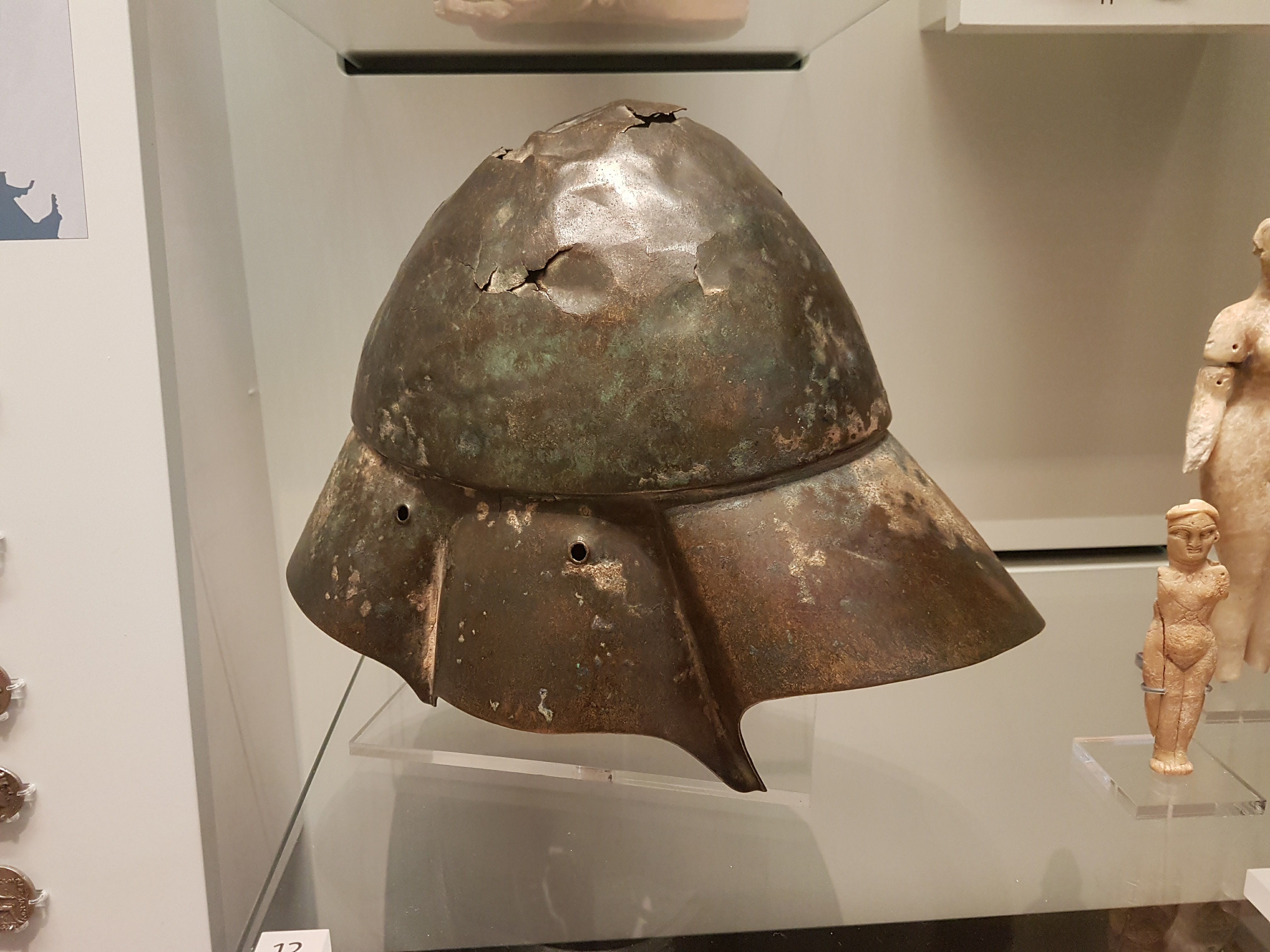 Bronze Boeotian helmet, 4th century BC, found in Tigris river in Iraq, believed to have belonged to one of Alexander the Great's cavalrymen. Displayed at the Ashmolean Museum, Oxford.